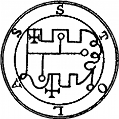 The seal of Stolas